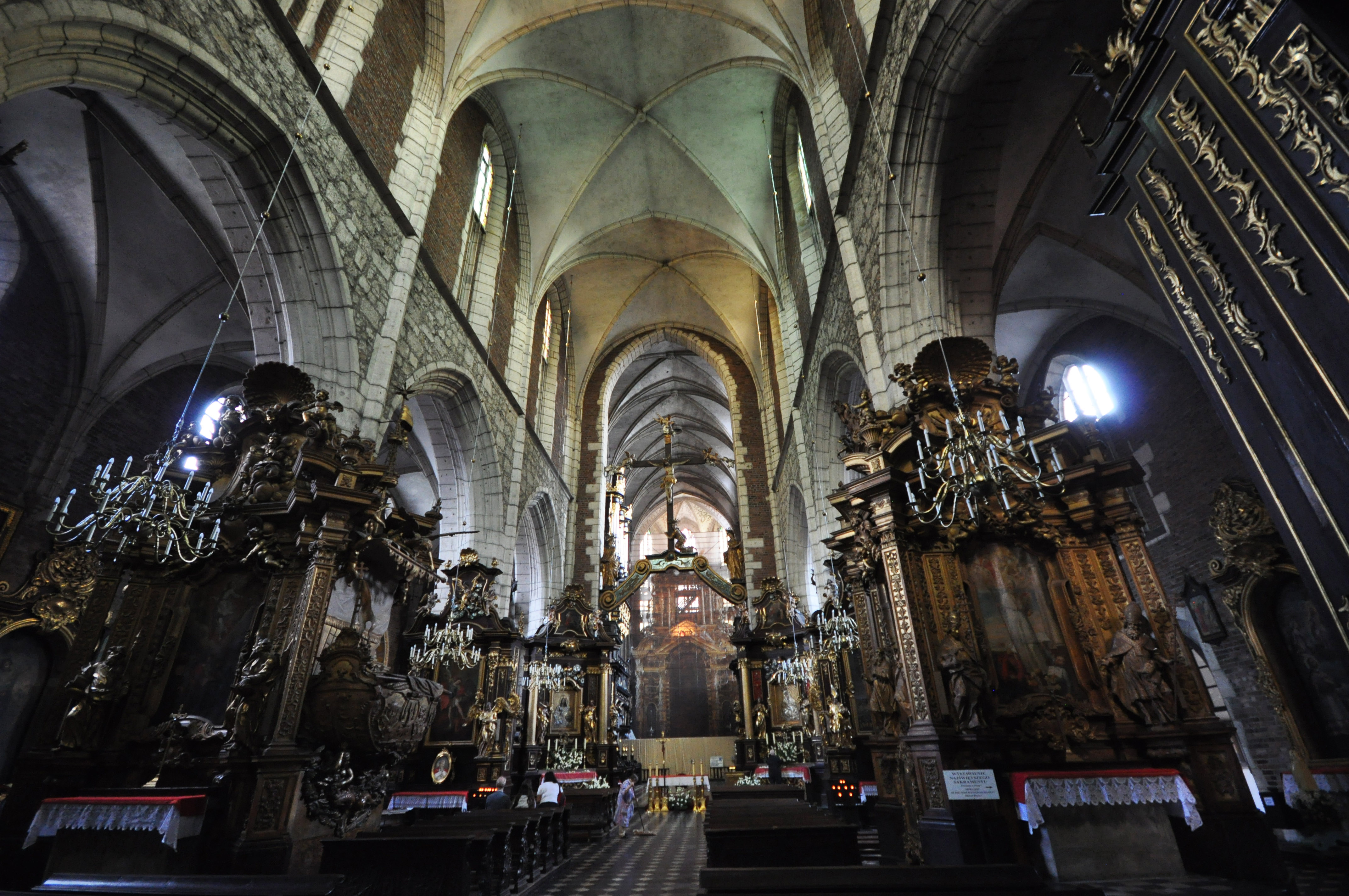 The Basilica Bożego Ciała (also known as the Corpus Christi Basilica), located in Kraków district of Kazimierz, Poland